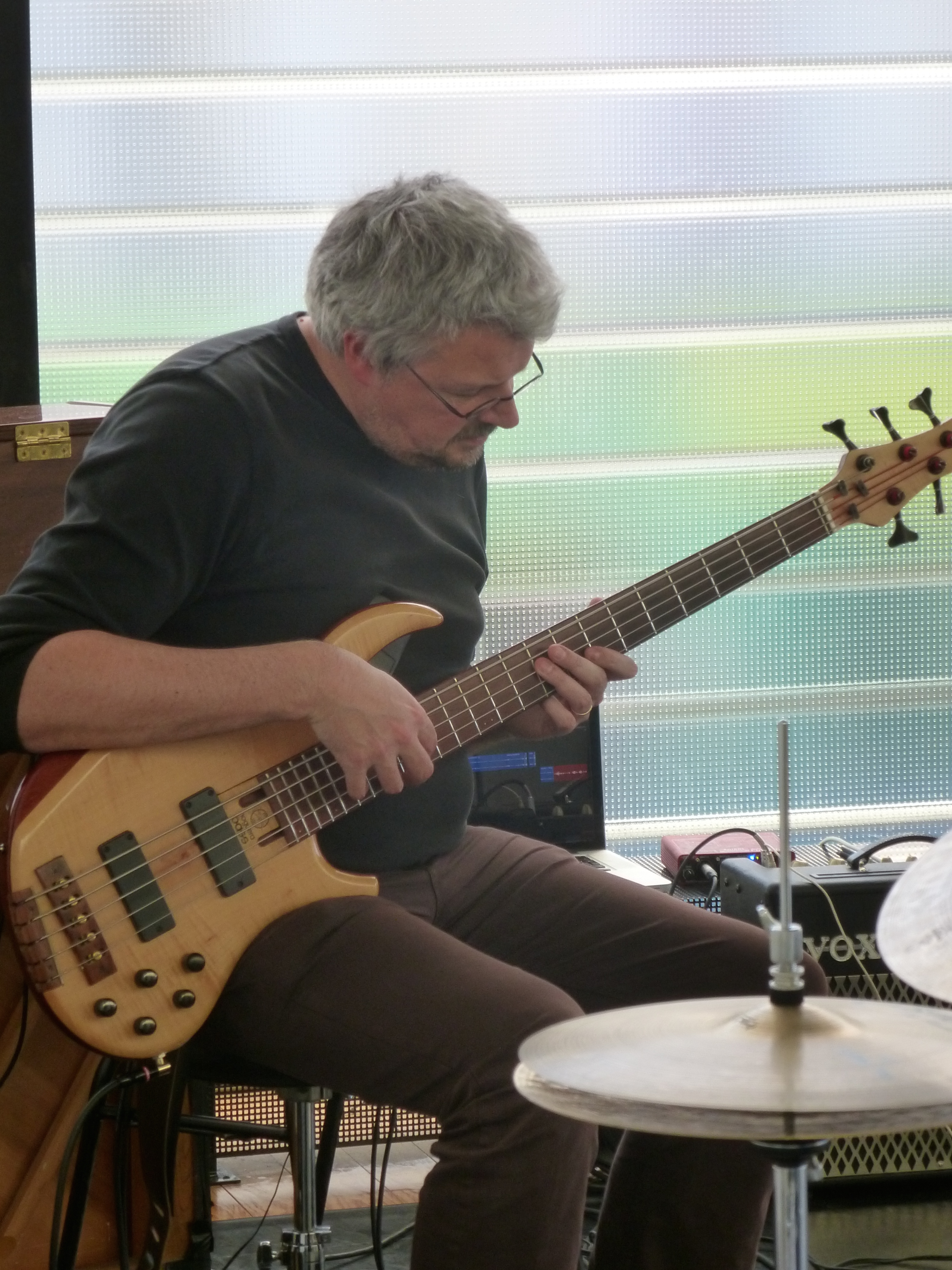 Sylvain Chomet